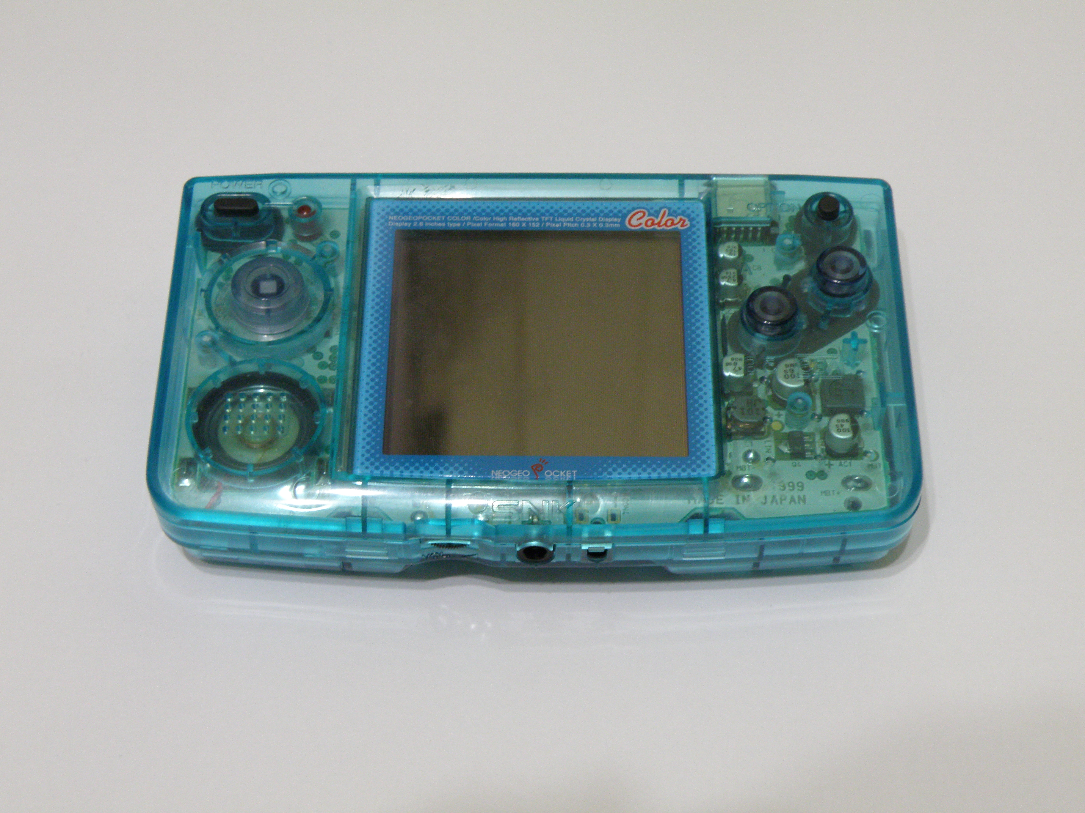 An old Neo-Geo Pocket Color handheld video game system.